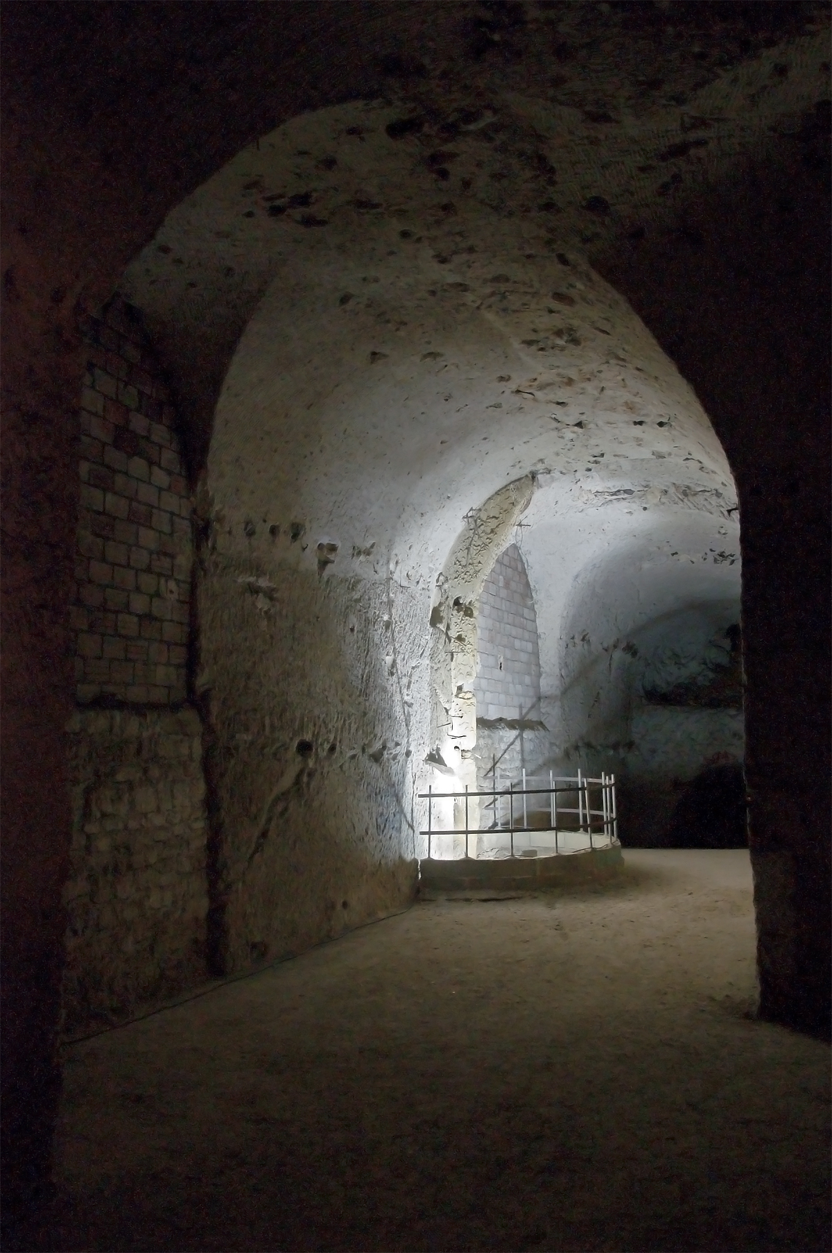 Former chalk quarries in Meudon (Hauts-de-Seine, France), here under the Hill of Brillants, also called Rodin Hill. The illuminated part is a ventilation shaft.